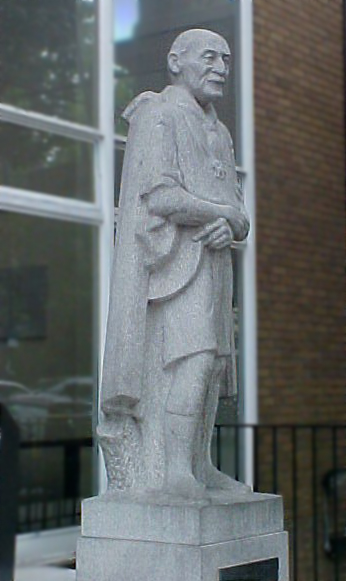 Picture of the statue of Robert Baden-Powell, made by Don Potter in 1960. The statue is located in front of Baden-Powell House in London.